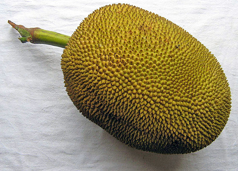 Jackfruit, the biggest edible fruit, up to 100 lbs. Pantropical, originating in Southeast Asia. There’re two versions of the local fruit: hard (jaca dura) and soft (jaca molhe), different people preferring one or another. The taste is acquired. I personally prefer the hard variety, the one in the photos.